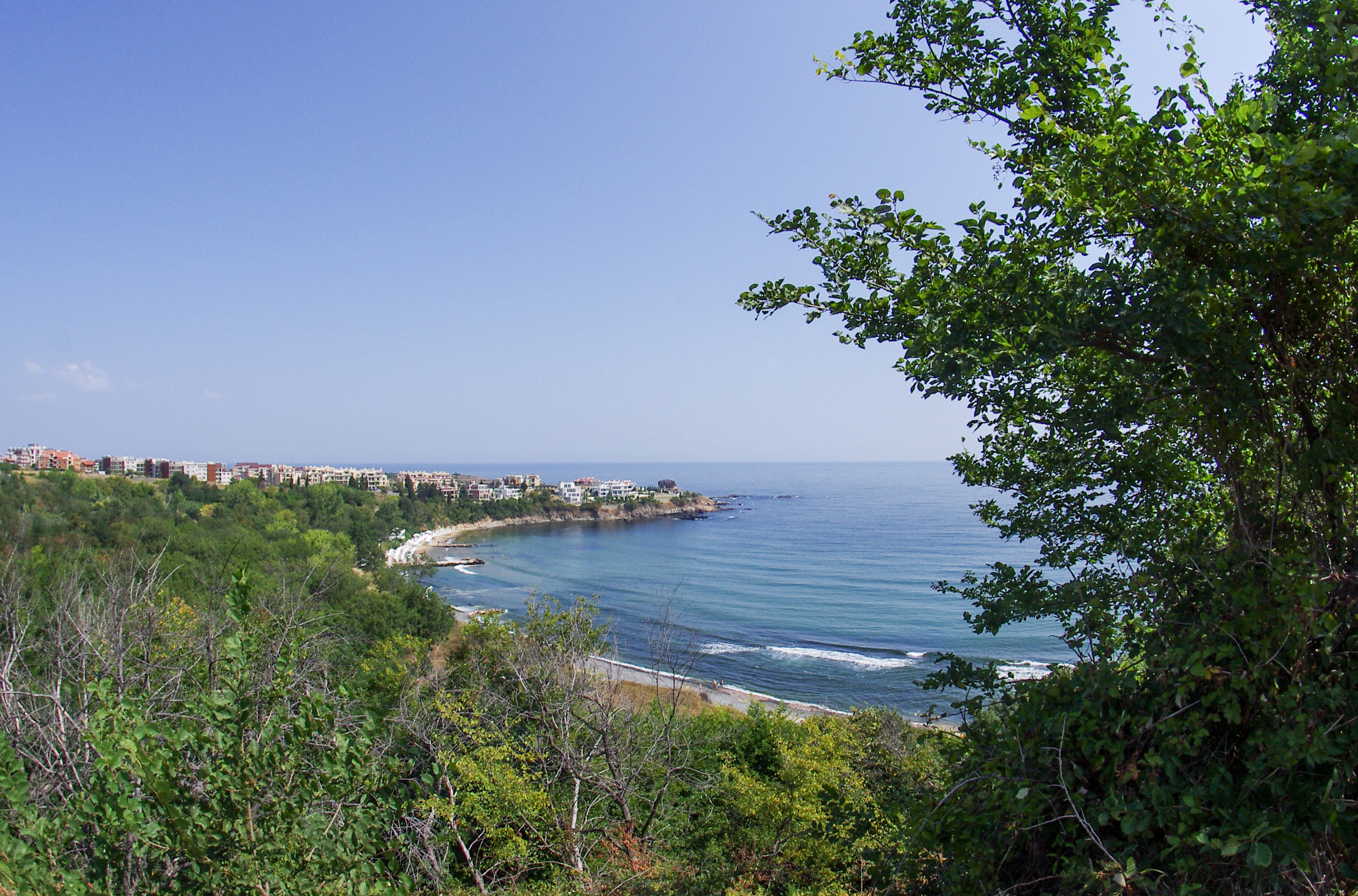 Looking at Patahury bay in Chernomorets